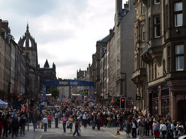 Royal Mile during Edinburgh Festival. The High Street, closed to traffic beyond the junction with Cockburn Street (right), climbs away from the crossroads of North and South Bridges, thronged with festival-goers and street performers. On the left is 934230.